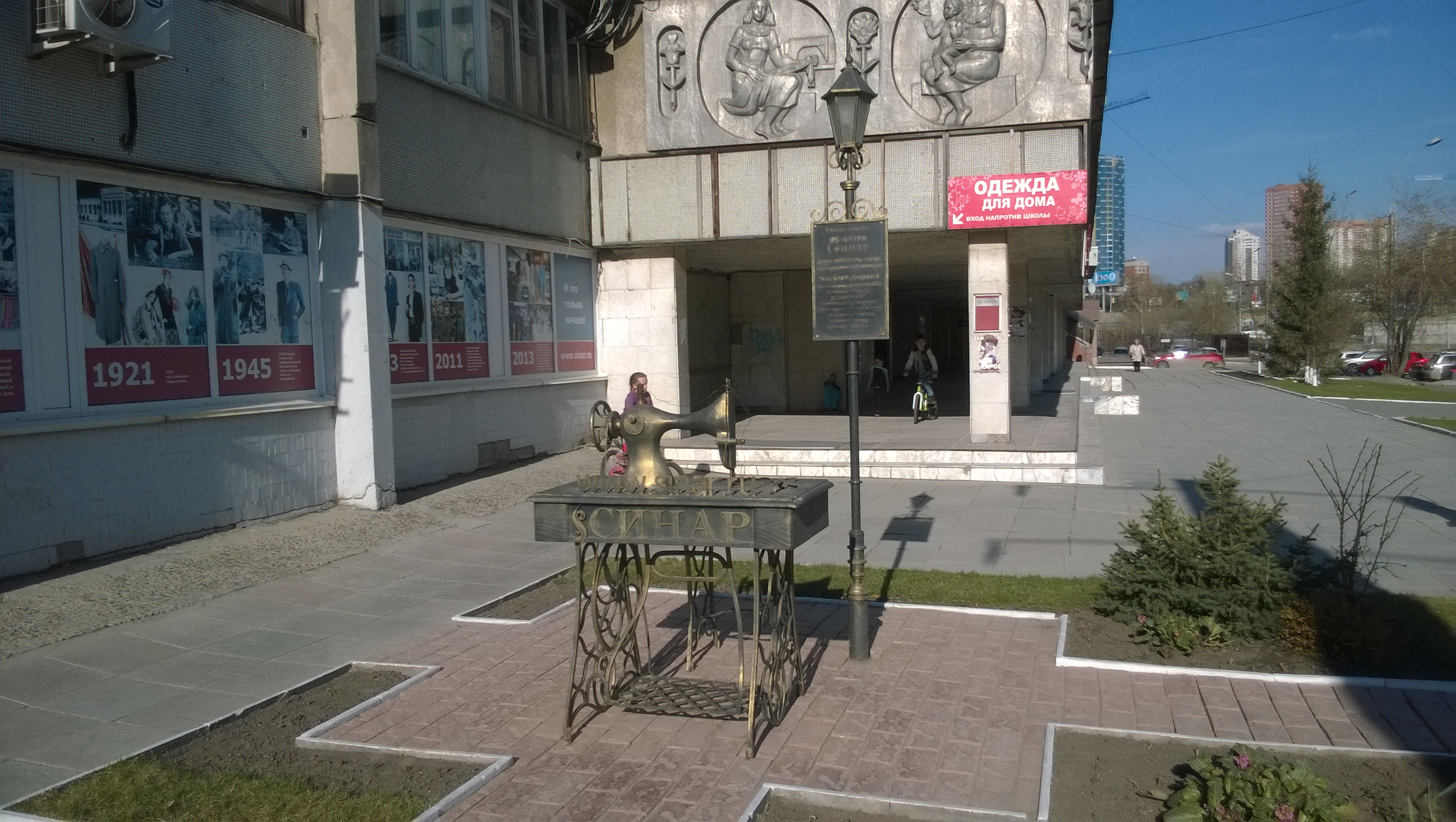 Sewing-machine (metal sculpture in Novosibirsk).